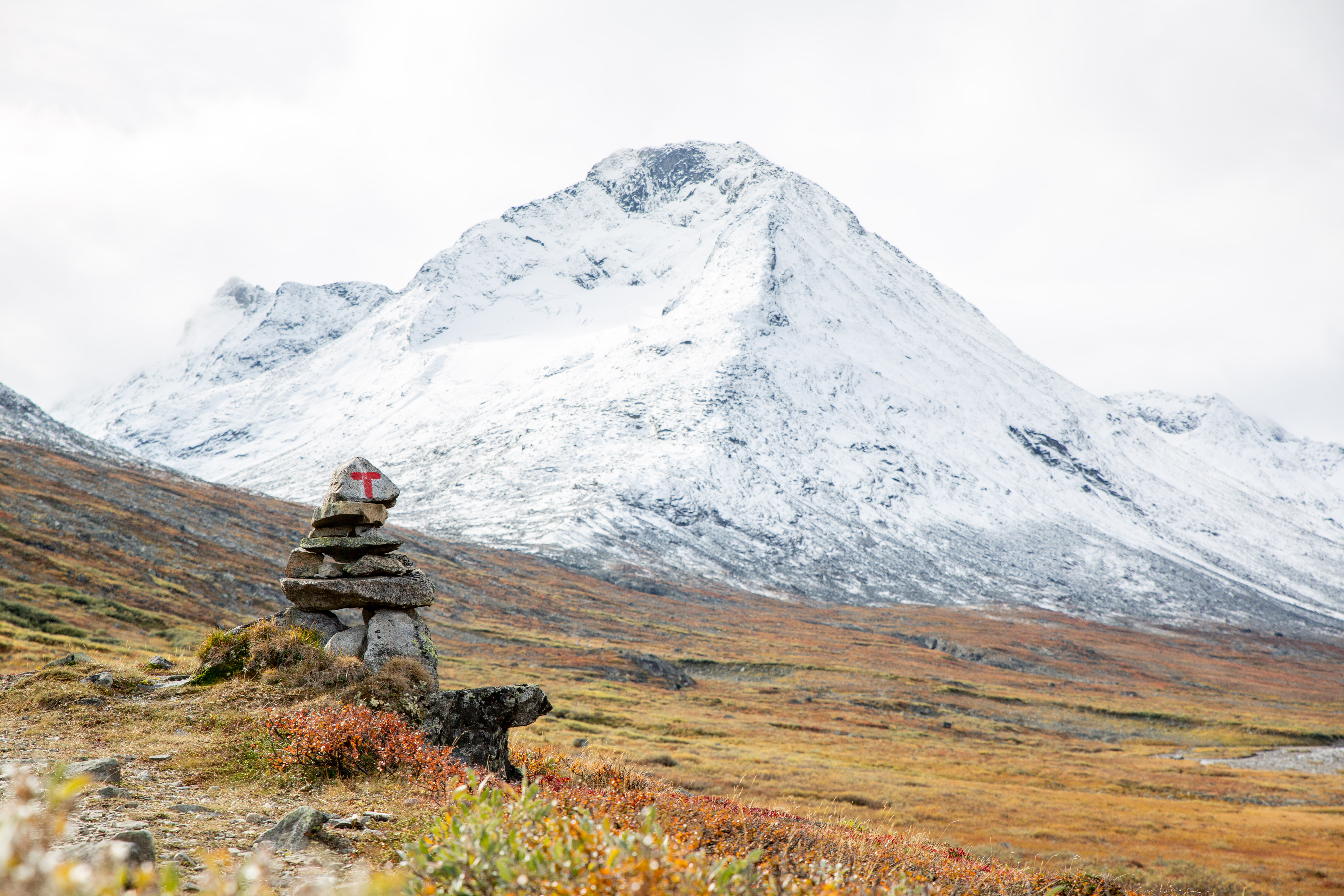 A red T marks the path in Visdalen in Jotunheimen with Store Urdadalstinden in the background in Jotunheimen in Autumn